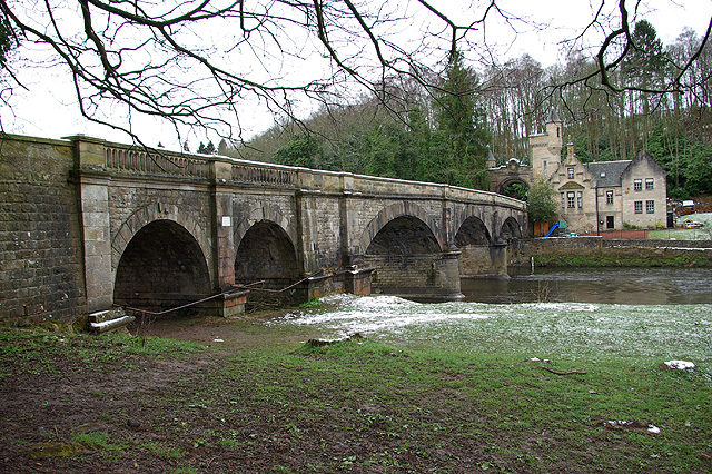 Mauldslie Bridge - North West Side The side view of Mauldslie Bridge with West Lodge in the background